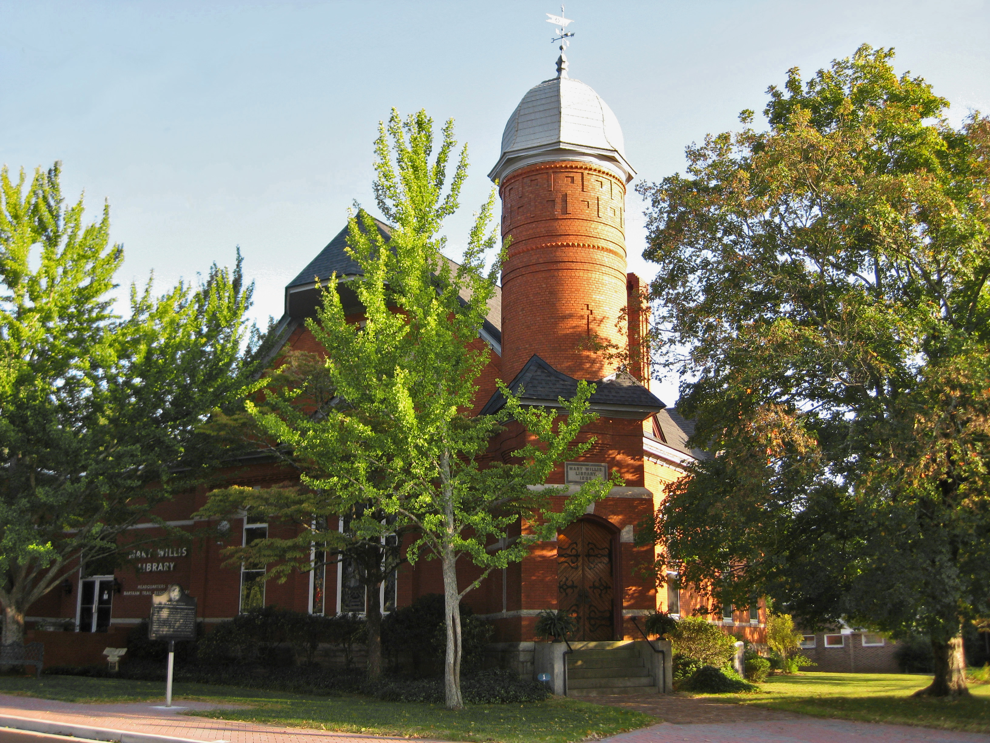 Washington, Georgia's Mary Willis Library was the first free public library in the state, opening in 1889, and is listed with the National Register of Historic Places.